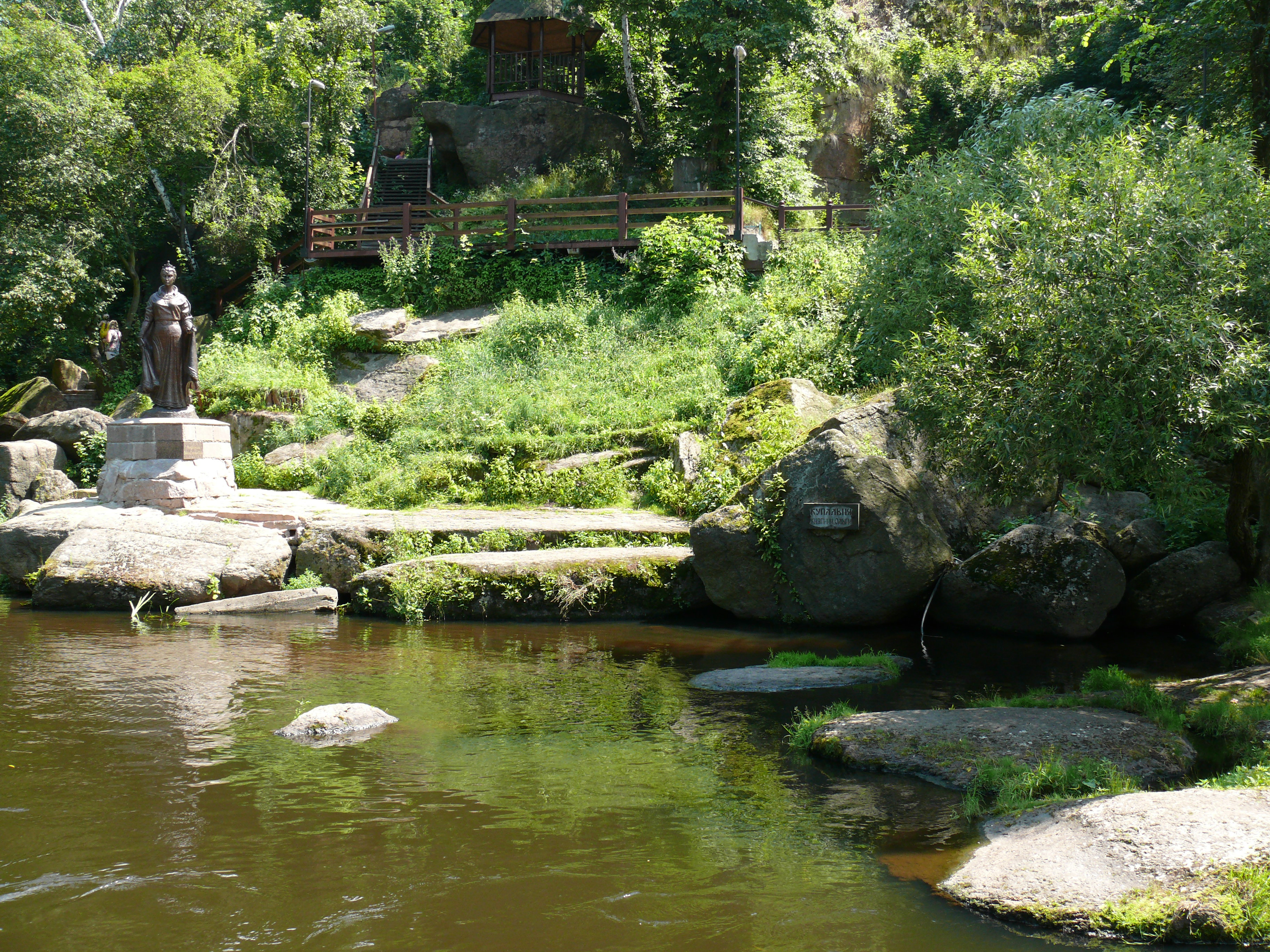 Princess Olga's bath and monument to her in Korosten, Ukraine